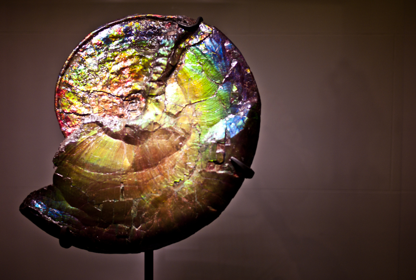 Iridescent ammonite(ammolite) fossil on display at the American Museum of Natural History, New York City